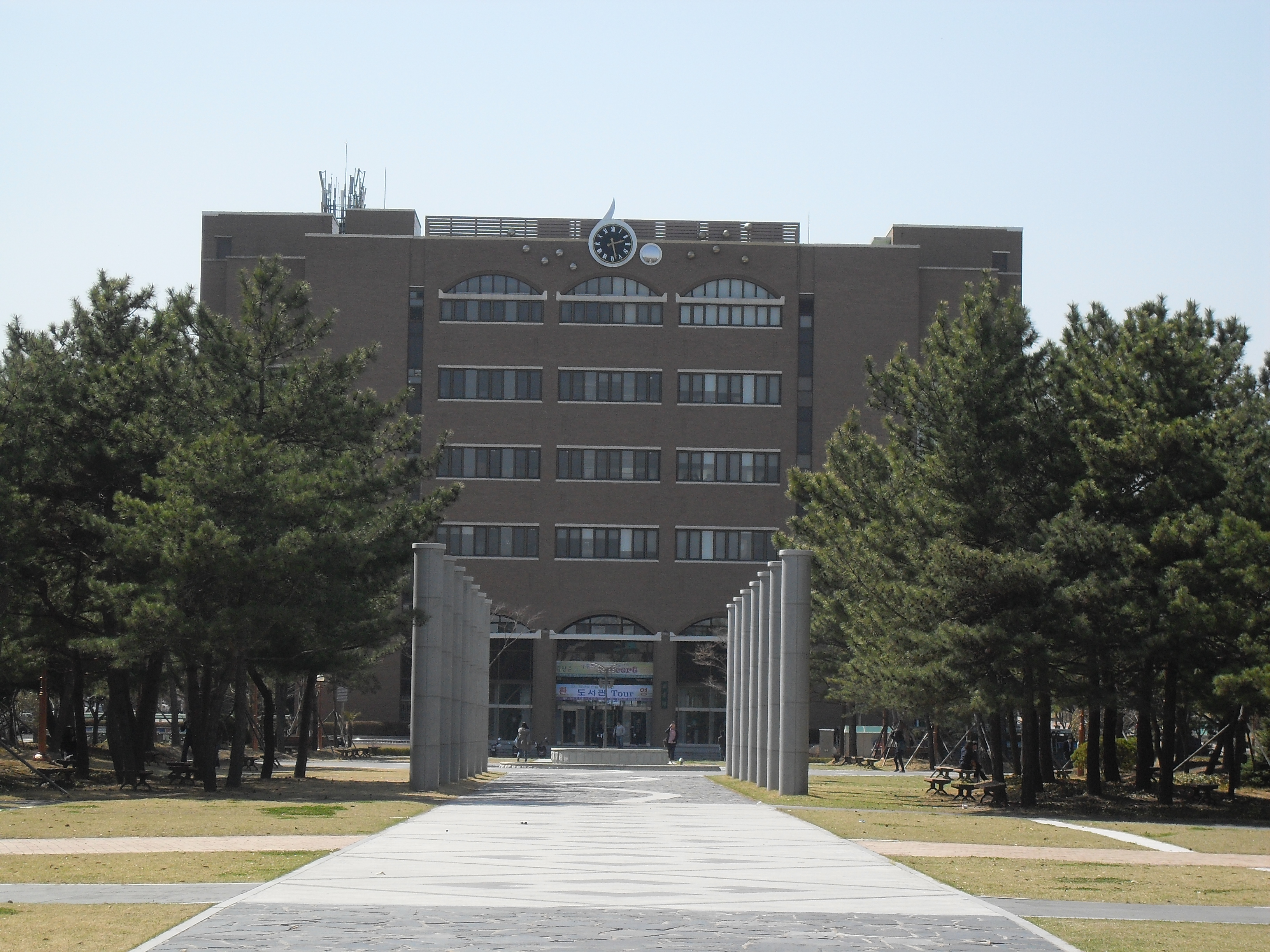 Library of Gyeongsang National University, in Jinju, South Korea.